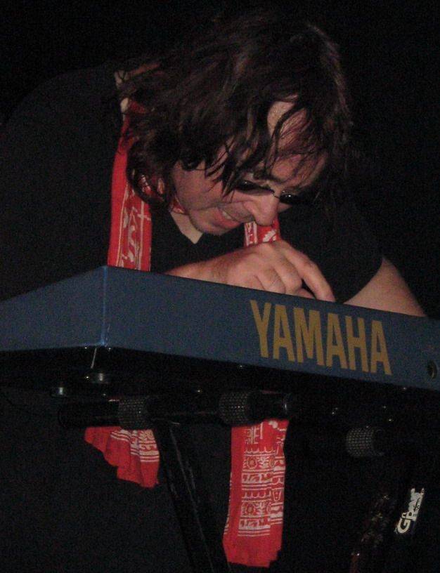 Edward Ka-Spel, 13 Sept. 2008, Paard van Troje, Den Haag